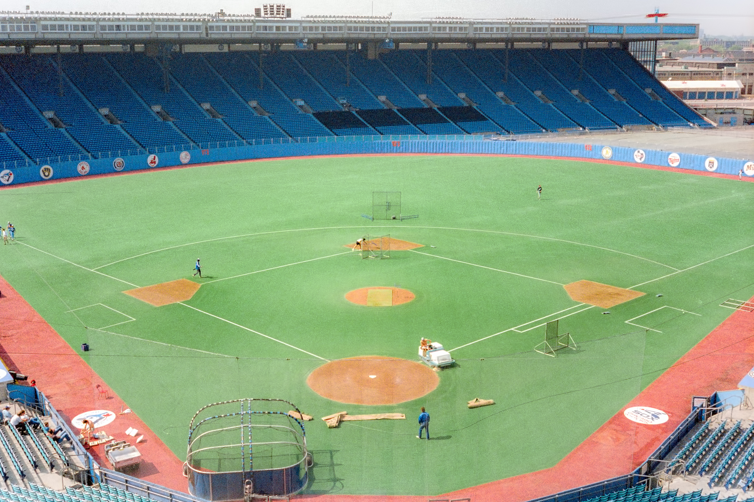 Taken before the Chicago White Sox faced the Toronto Blue Jays @ Exhibition Stadium in Toronto on May 27, 1988.